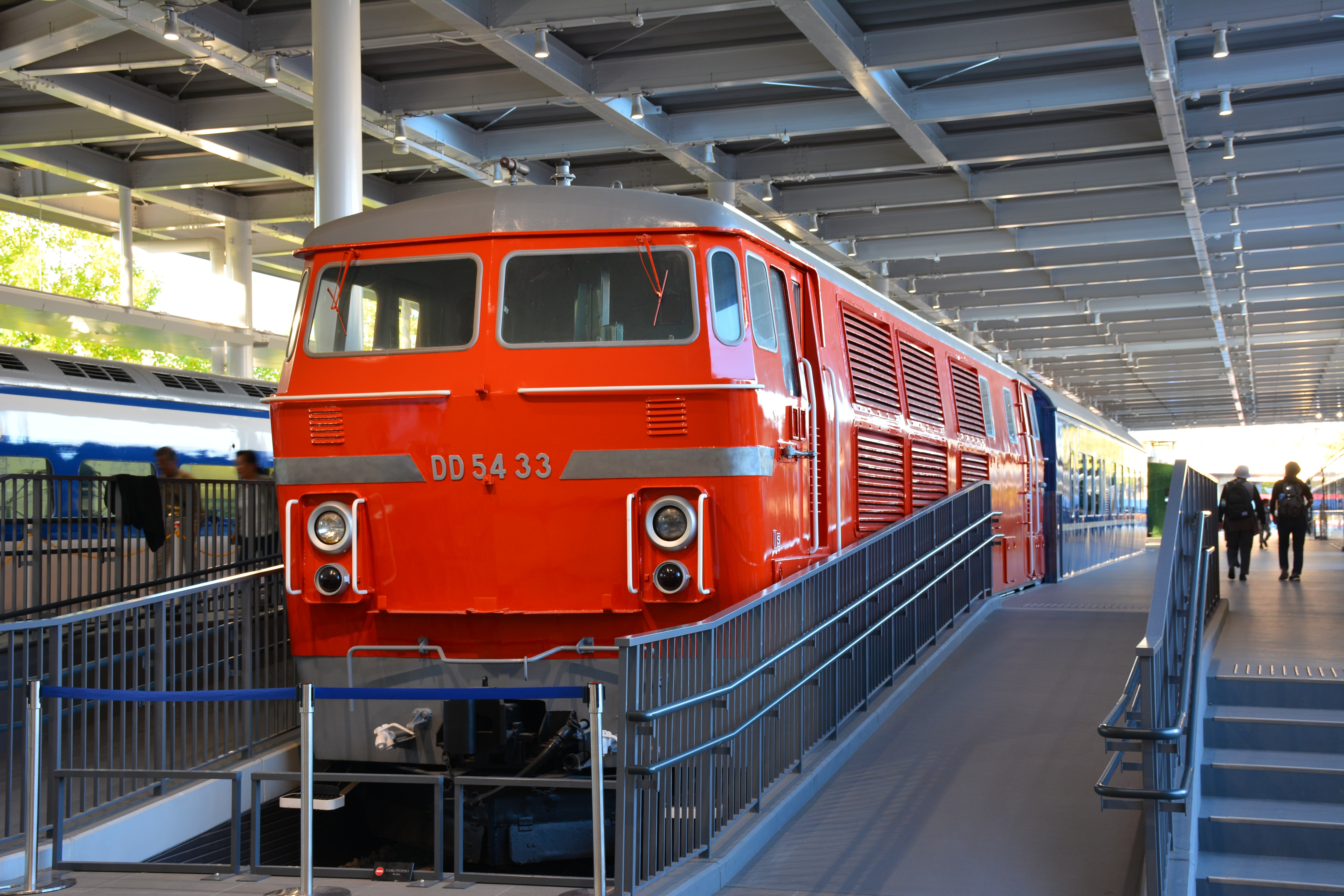 Preserved Class DD54 diesel locomotive DD54 33 on display at the Kyoto Railway Museum in Kyoto, Japan